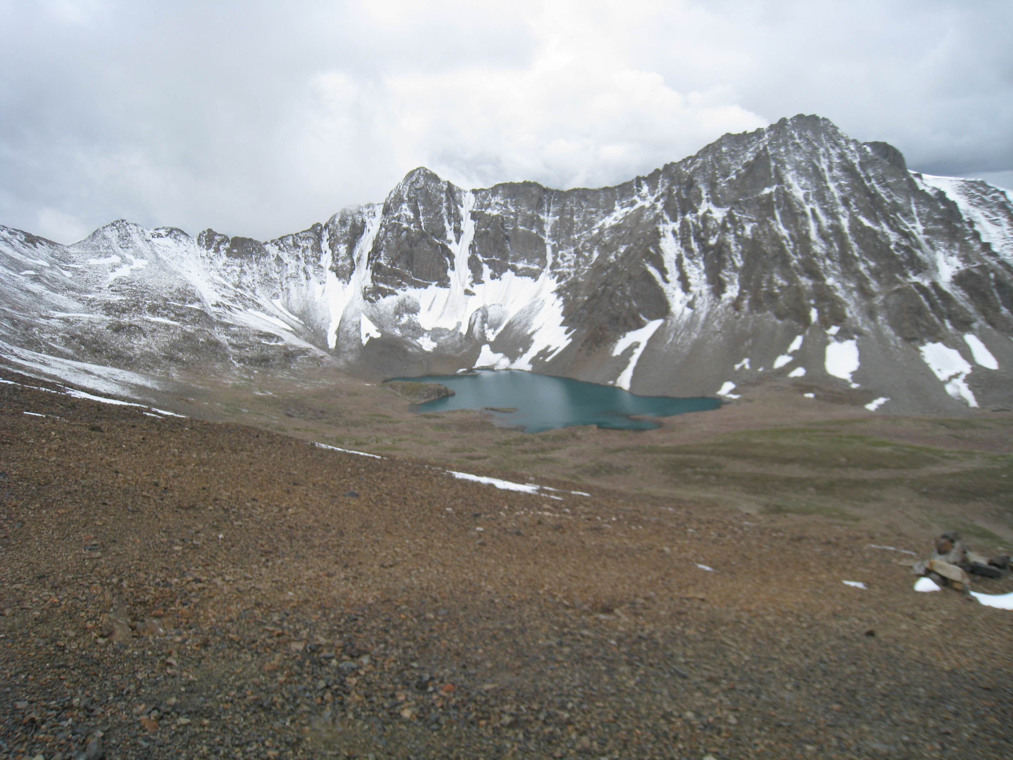 The unseen beauty, you need to trek for more then 3 days to visit this beautiful lake in Deosai Plains, Pakistan